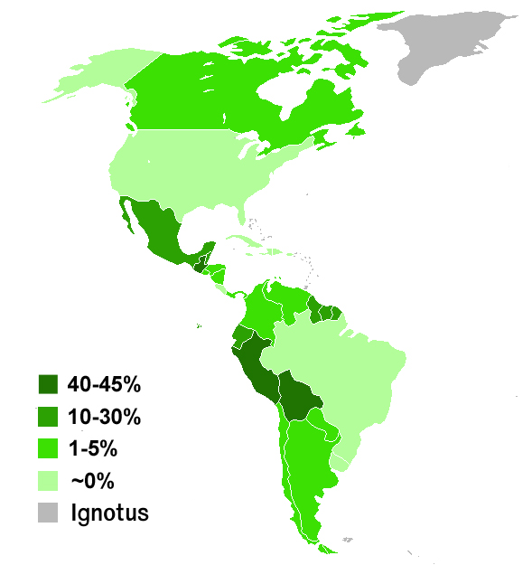 population distribution of native americans in Americas